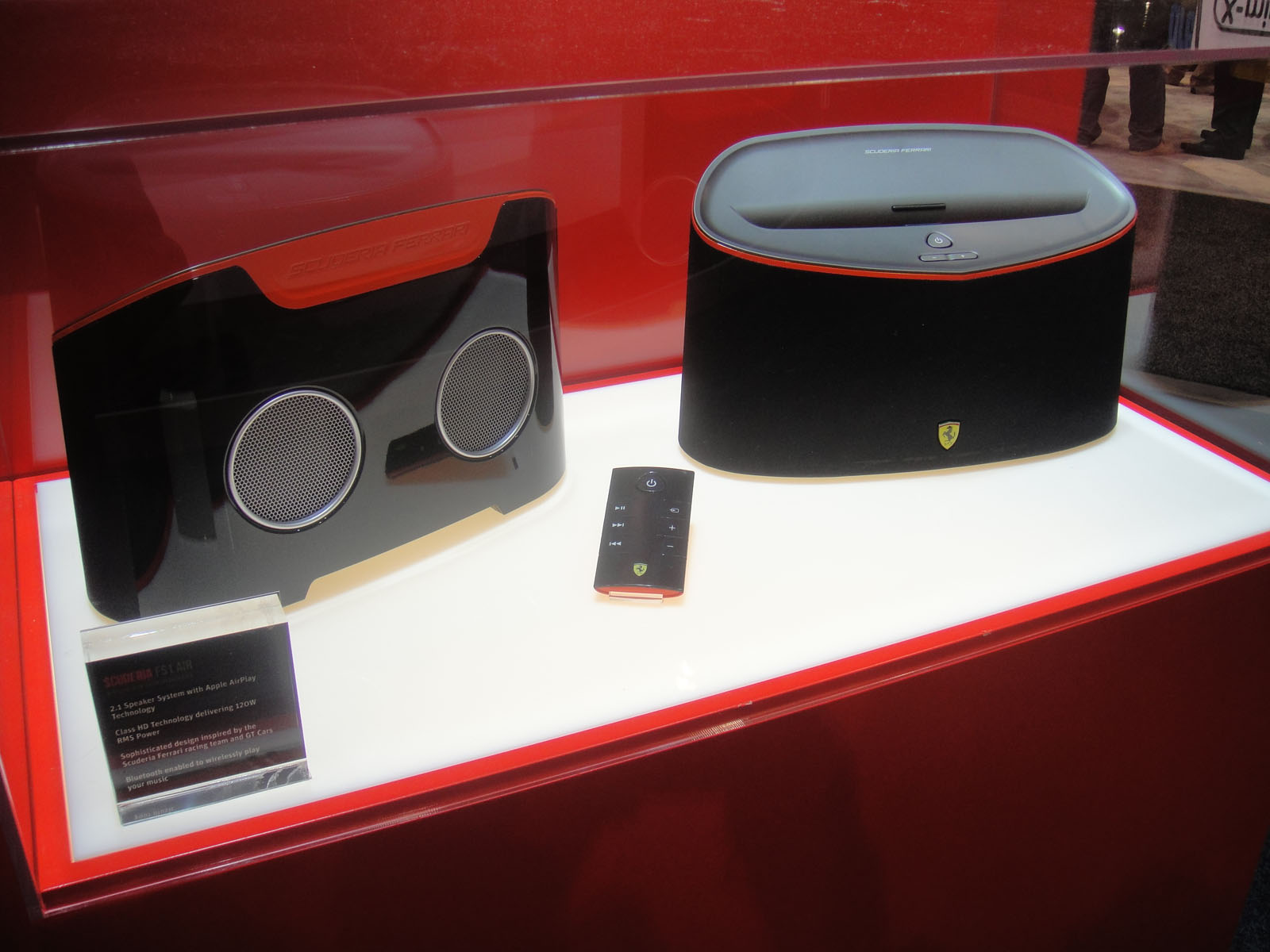 photo 2012 Pop Culture Geek taken by Doug Kline If you're interested in higher resolution versions of my images, contact me via my profile page.